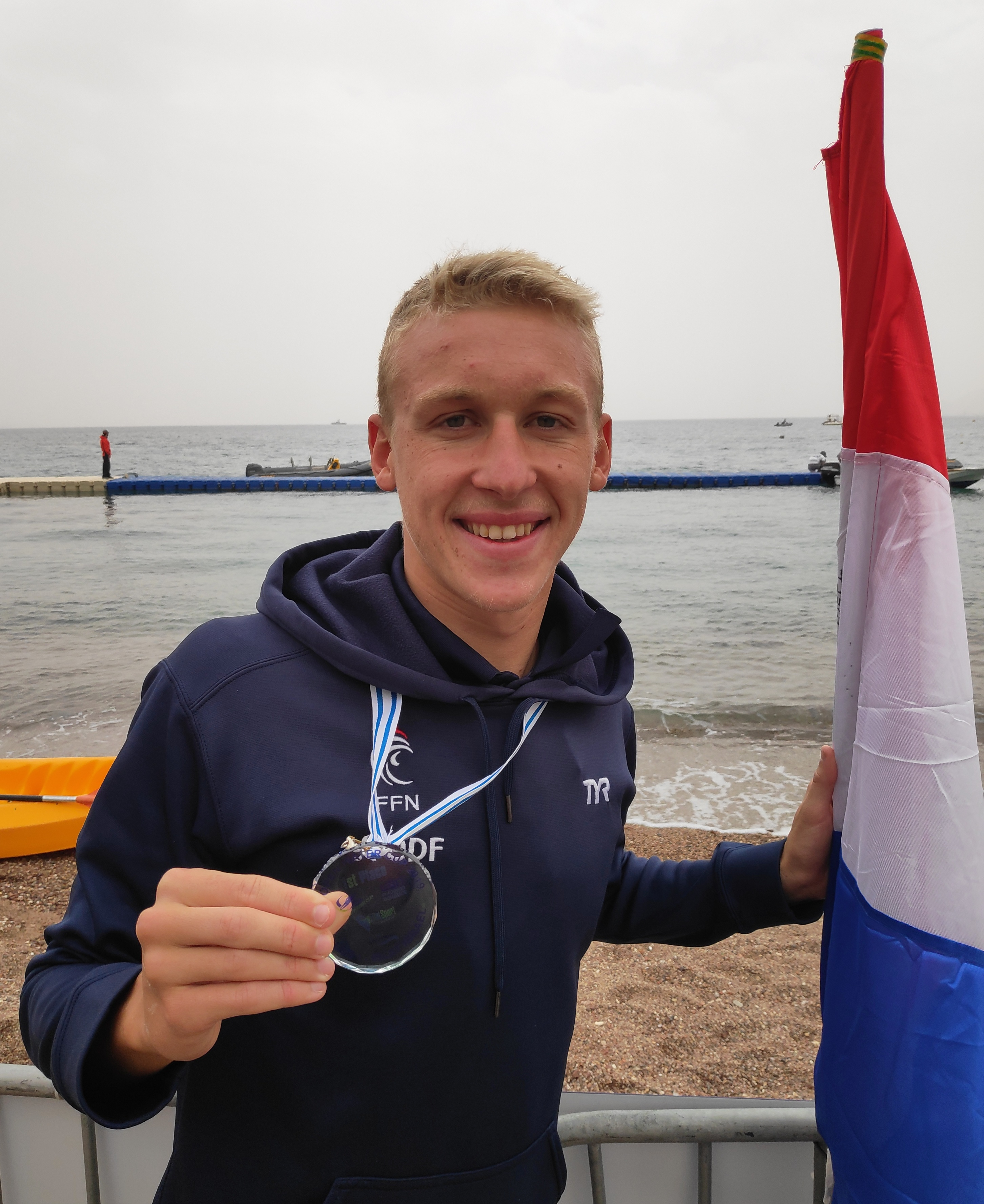 Marc-Antoine Olivier, Champion of Men's 10 km, LEN Open Water Cup - Eilat Israel, March 31, 2019